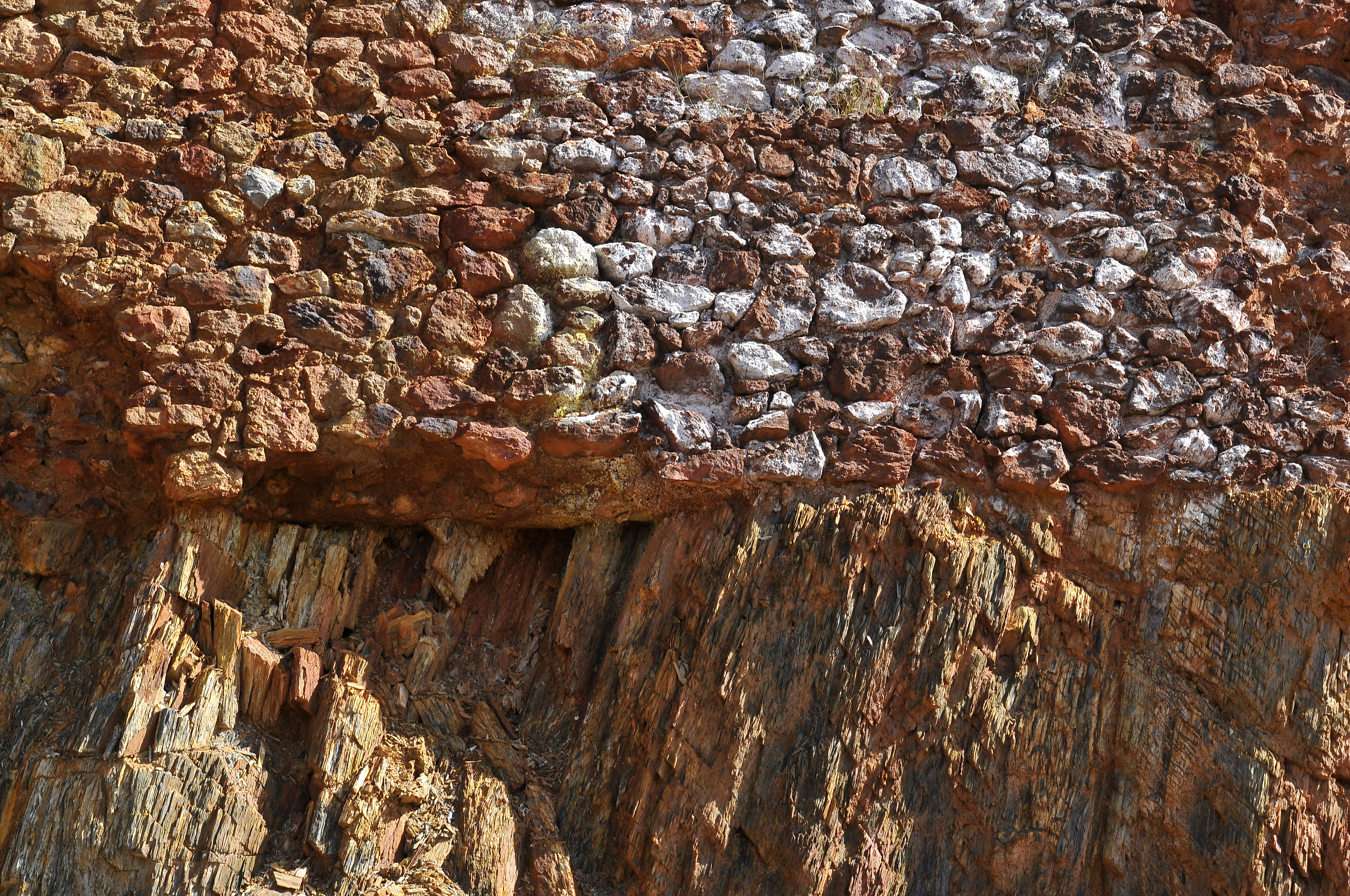 Detail of the headframe at Iron Rock [Peña del Hierro] mine. Nerva, Huelva, Ansalusia, Spain